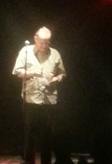 Patrice Desbiens photographed in Montréal, Québec, Canada at O Patro Výš.